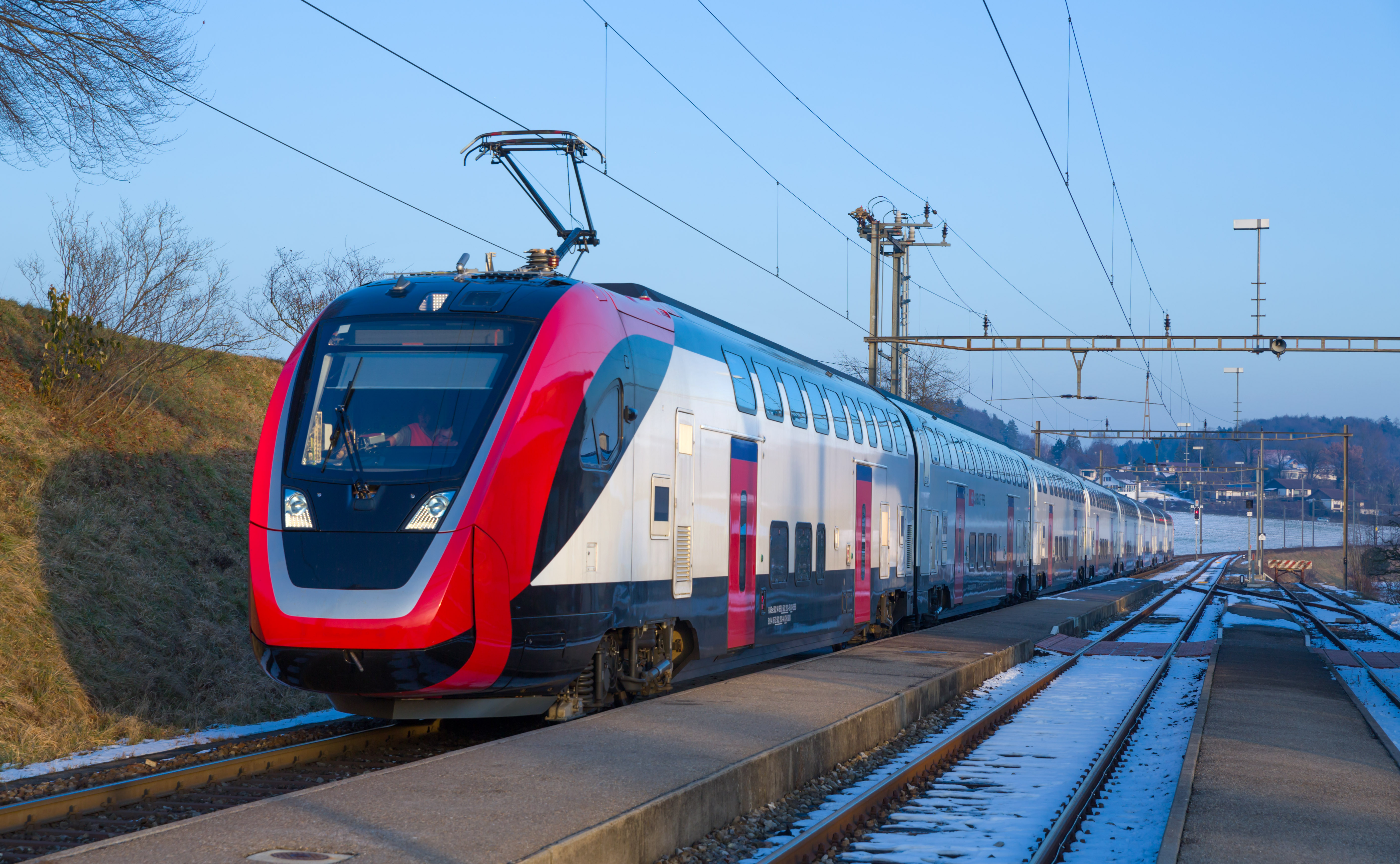 Bombardier "Twindexx Swiss Express" RABe 502 203, the IR200 variant, in testing. Pictured at Ossingen, Switzerland.